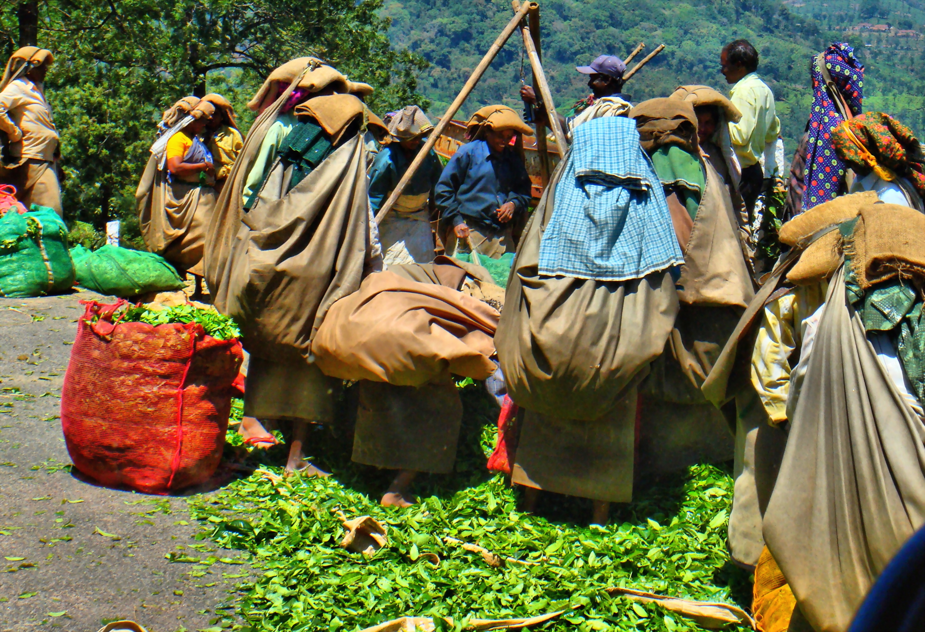 Weighing the tea leaves on a street side portable weighing scale